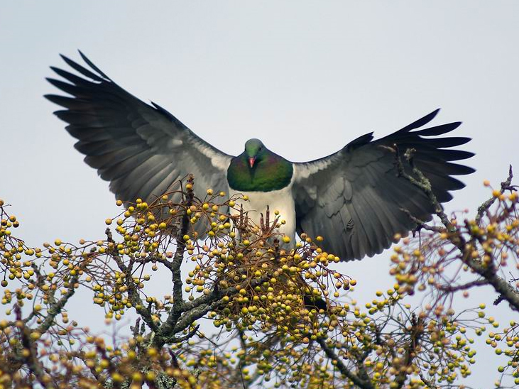 Kererū, (Hemiphaga novaeseelandiae), Auckland, North Island, New Zealand. Landing to feed in a fruiting Melia azedarach.